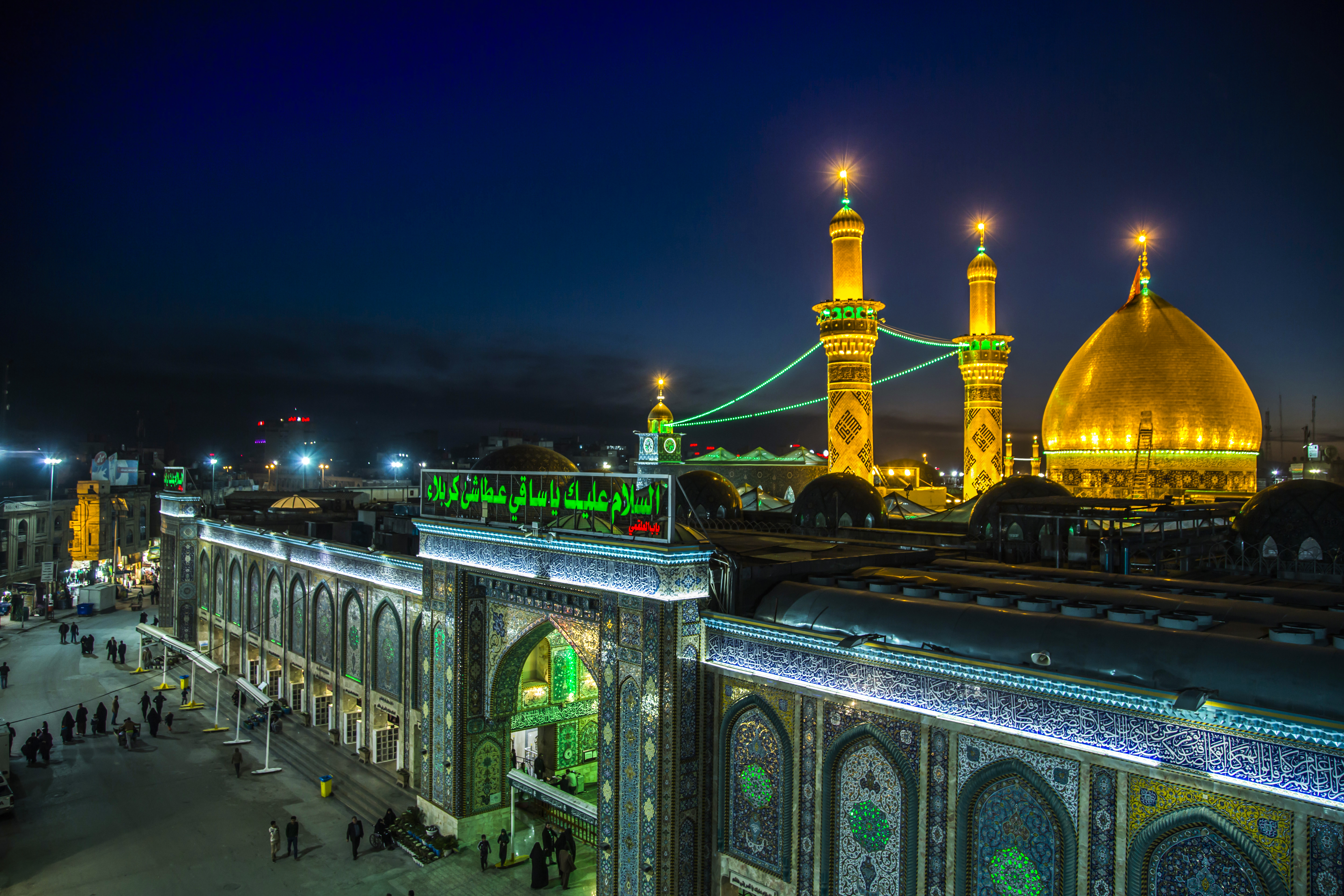 The holy Abbasid threshold